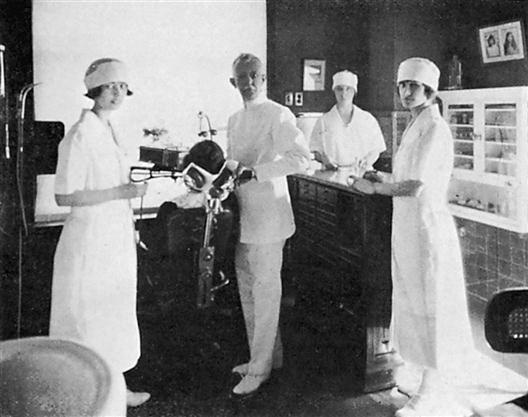 C. Edmund Kells (1856-1928), a New Orleans dentist, is usually credited with employing the first dental assistant. About 1890.